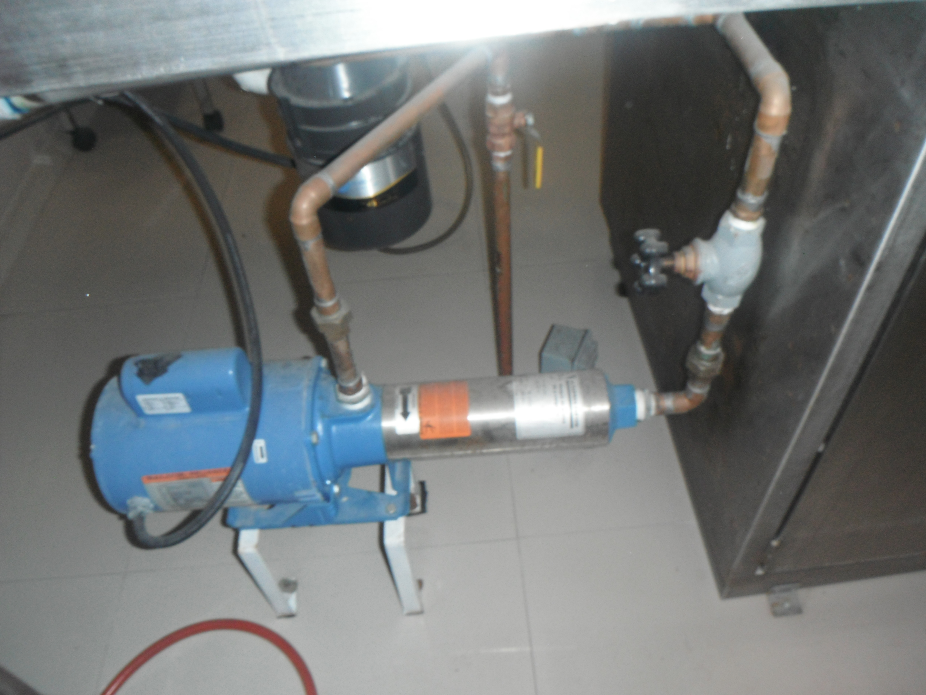 HIDROBOMBA2 bomba normal